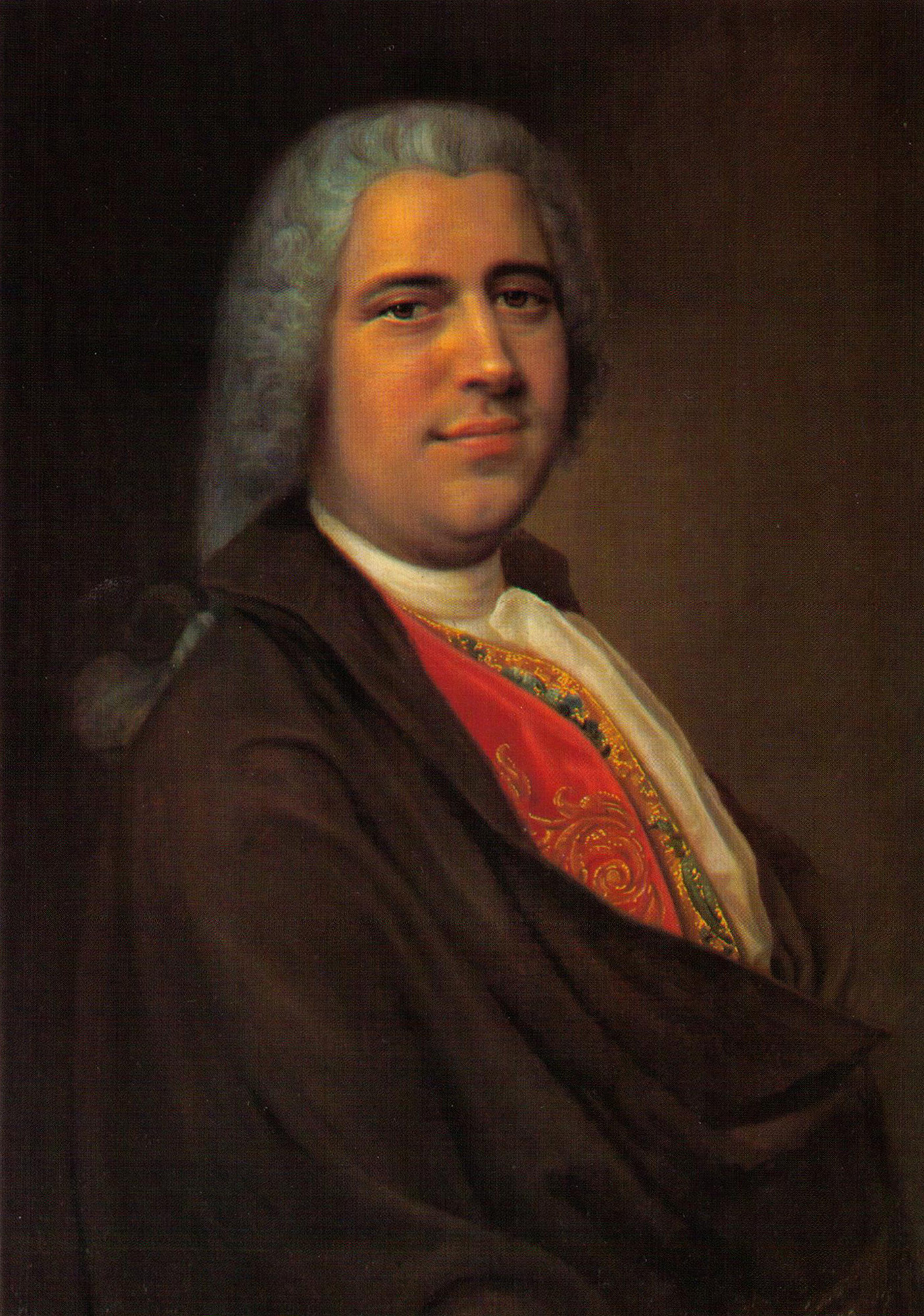 Johann Adolf Hasse in about 1740- Painting by Balthasar Denner (1685 - 1749)